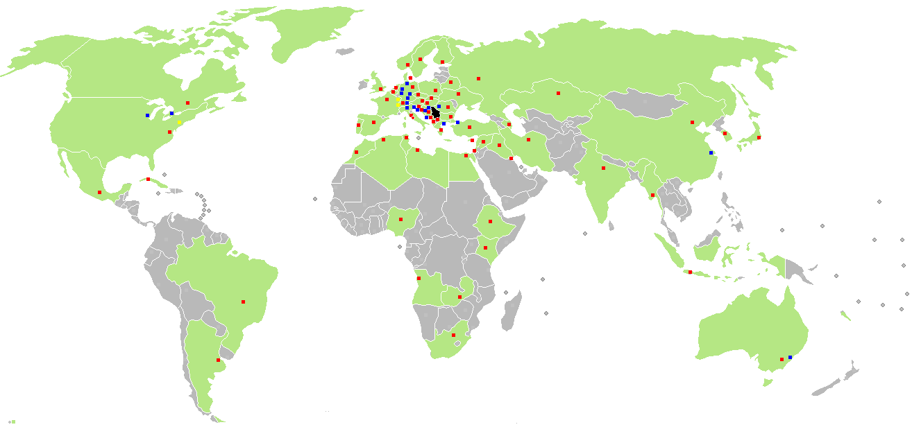 diplomatic missions of Serbia